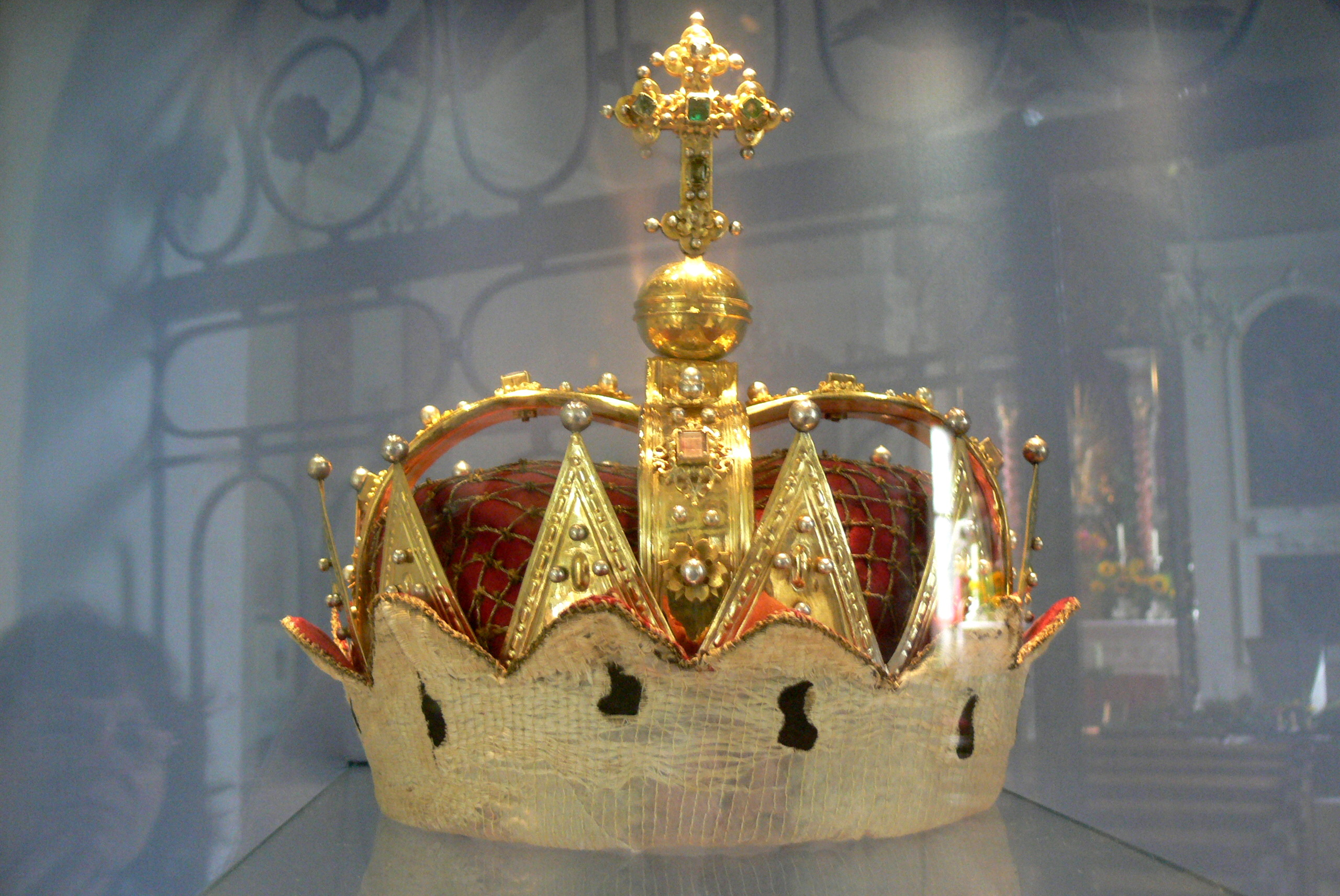 Mariastein ( Tyrol ). Crown of the archduke of Tyrol ( 1602 ).